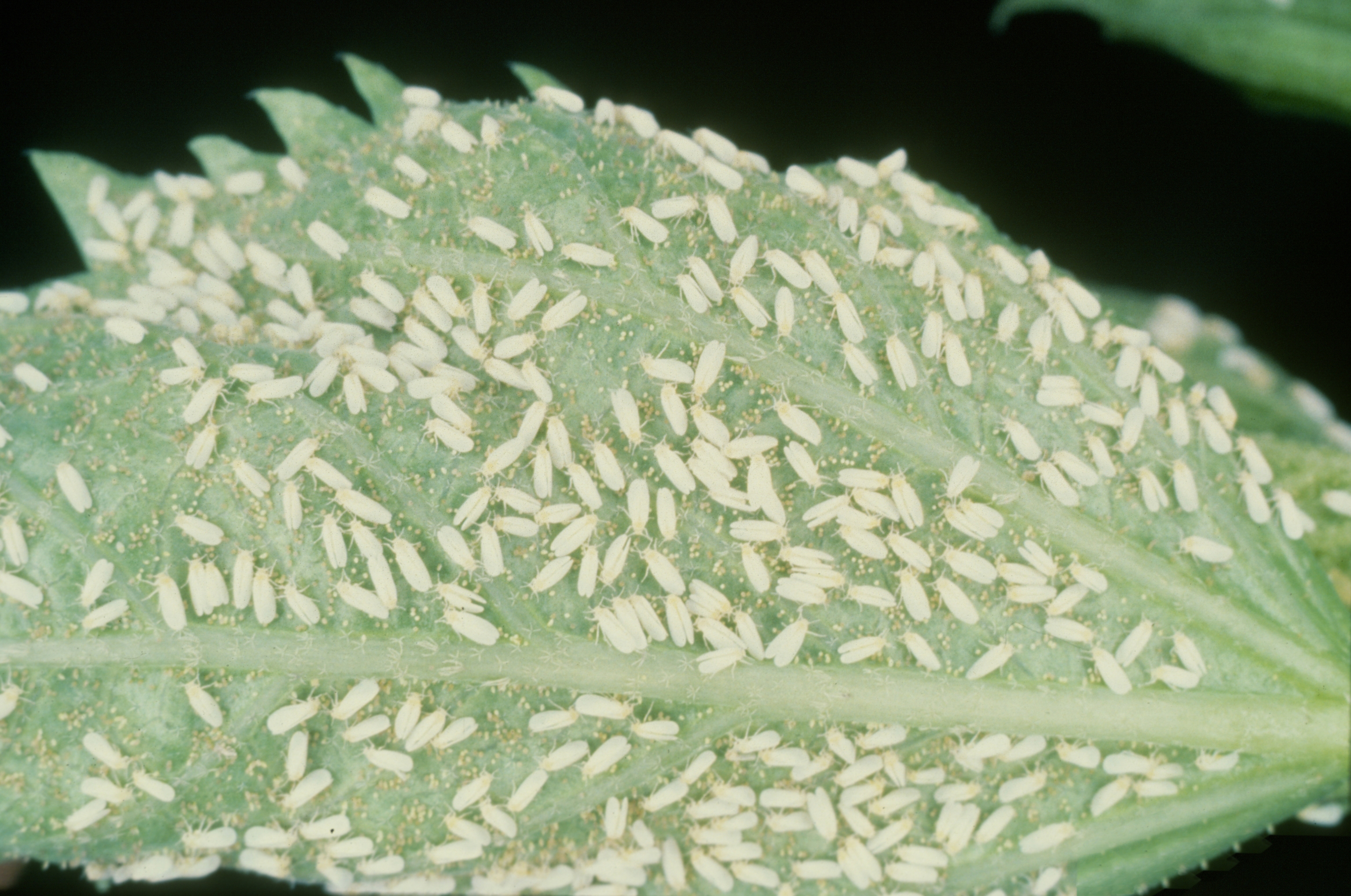 Bemisia argentifolii Common Name: silverleaf whitefly Photographer: Division of Plant Industry Archive, Florida Department of Agriculture and Consumer Services, United States Contact: Jeffrey W. Lotz, Florida Department of Agriculture and Consumer Services Descriptor: Infestation Image taken in: Florida, United States